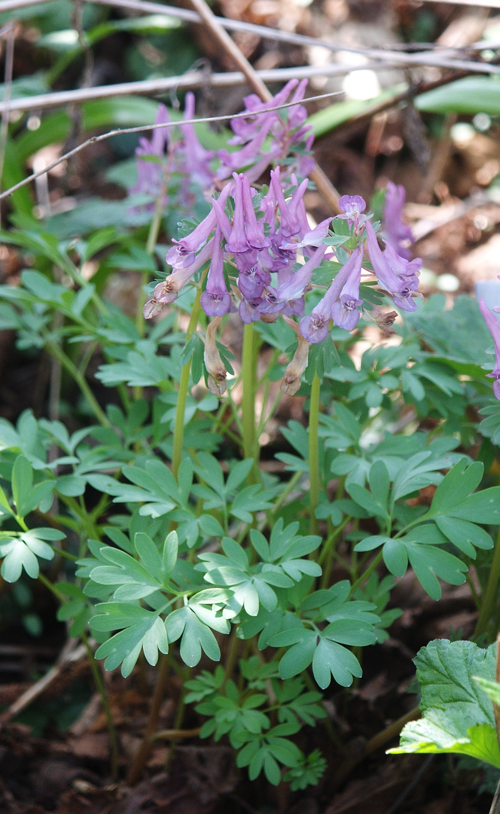 Corydalis solida (cultivated), Germany.